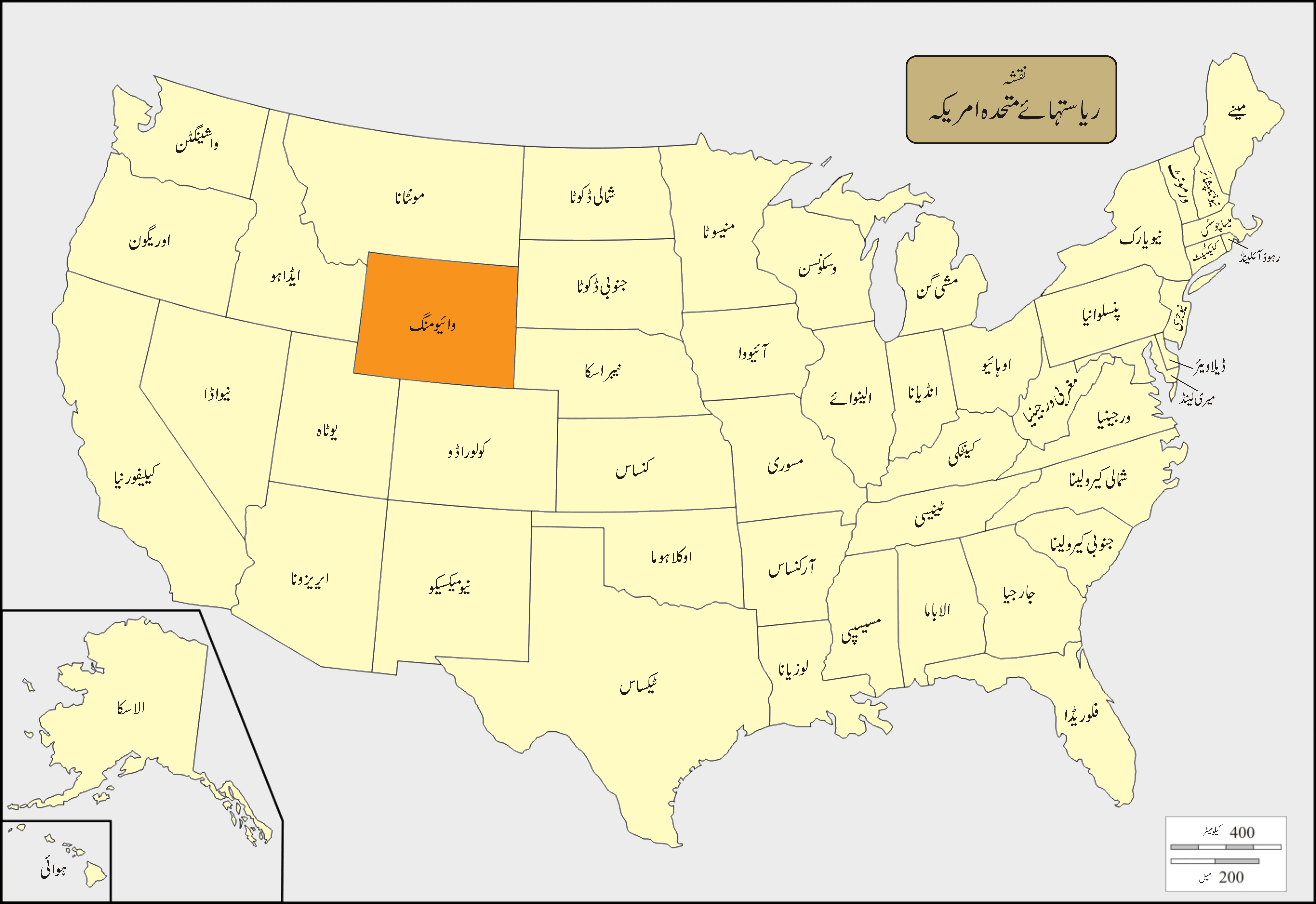 USA Names Wyoming